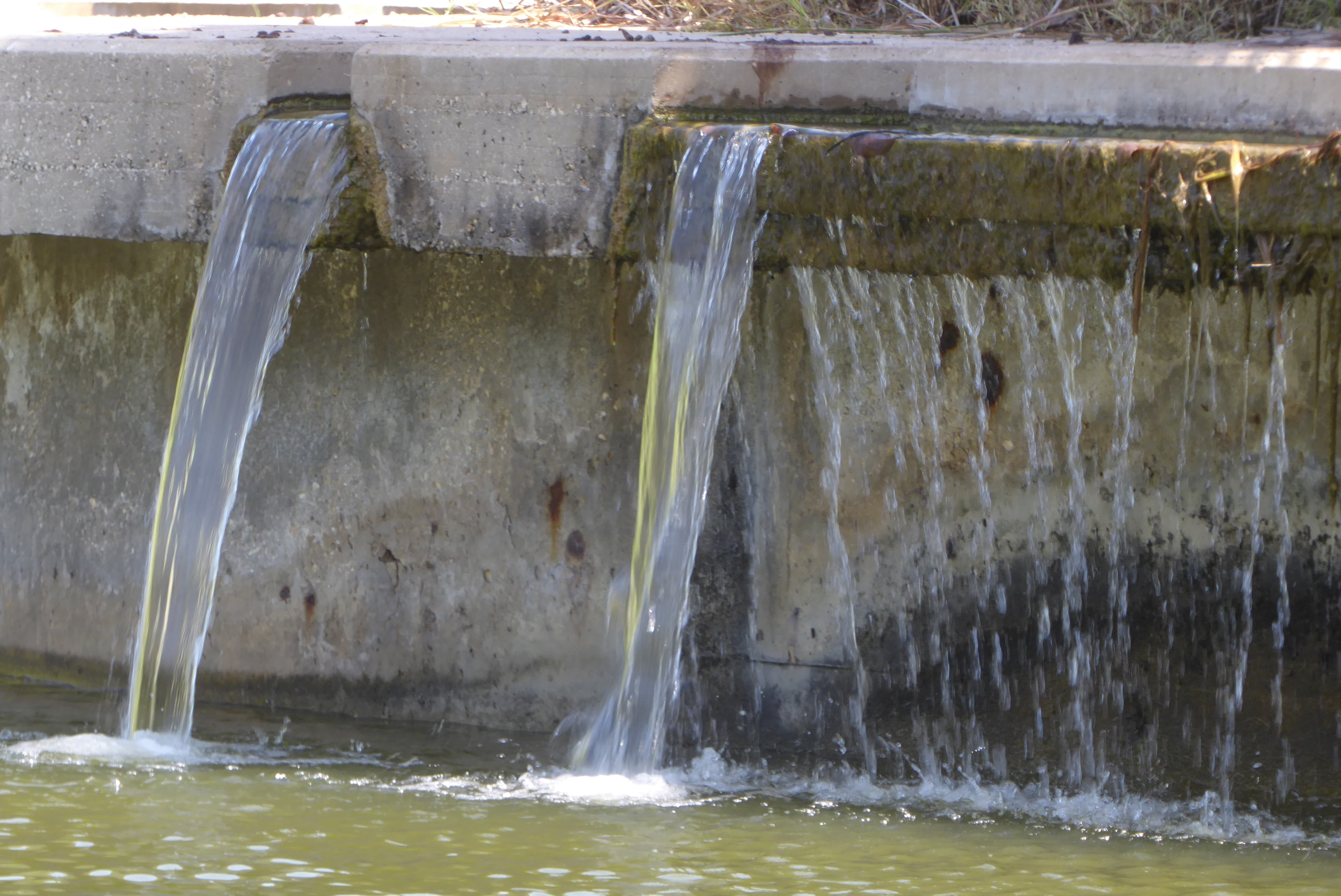 Edith Wolfson Park